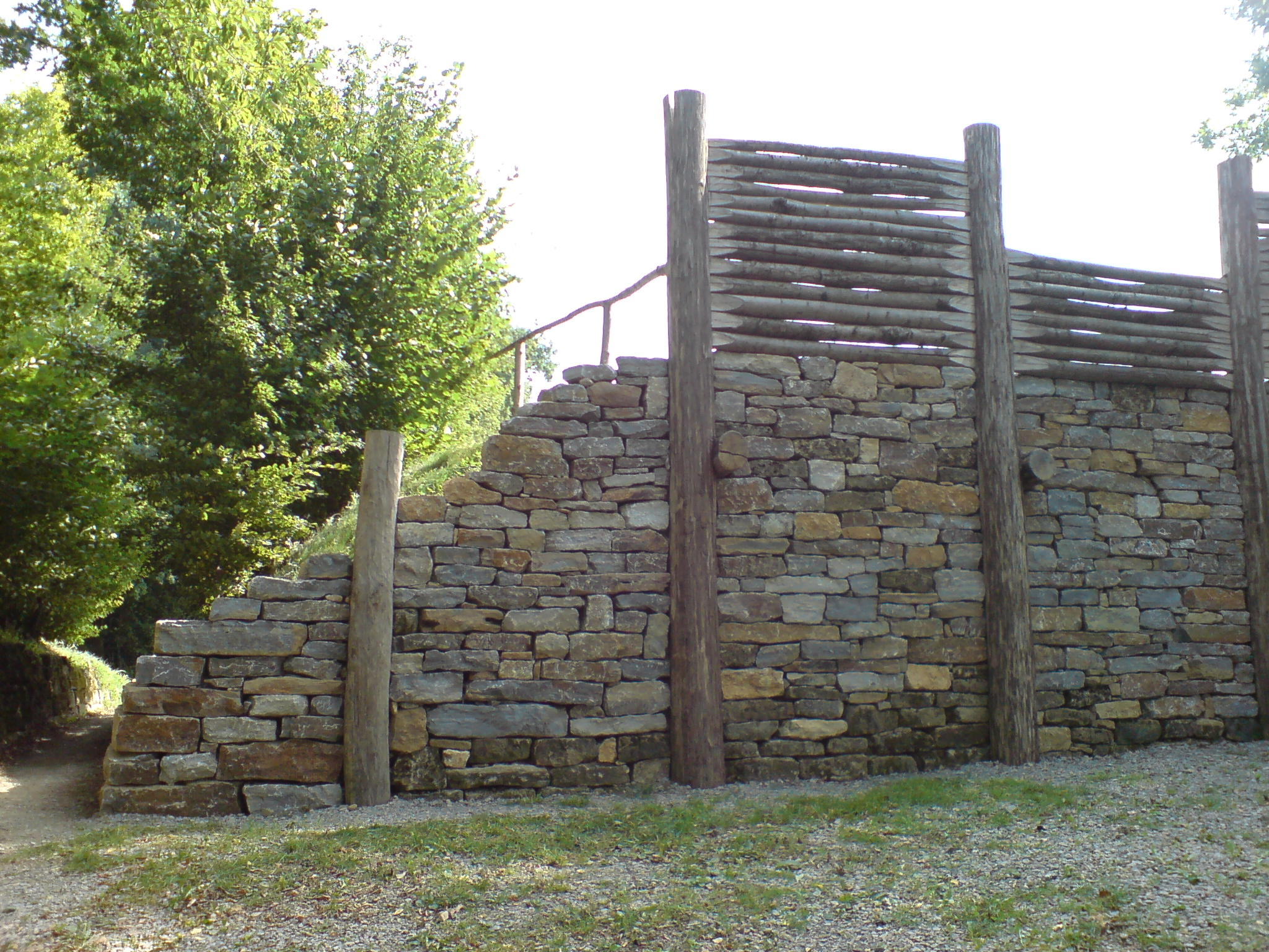 Reconstruction of a Pfostenschlitzmauer at the celtic Oppidum Burgstall near Creglingen (Baden-Württemberg).